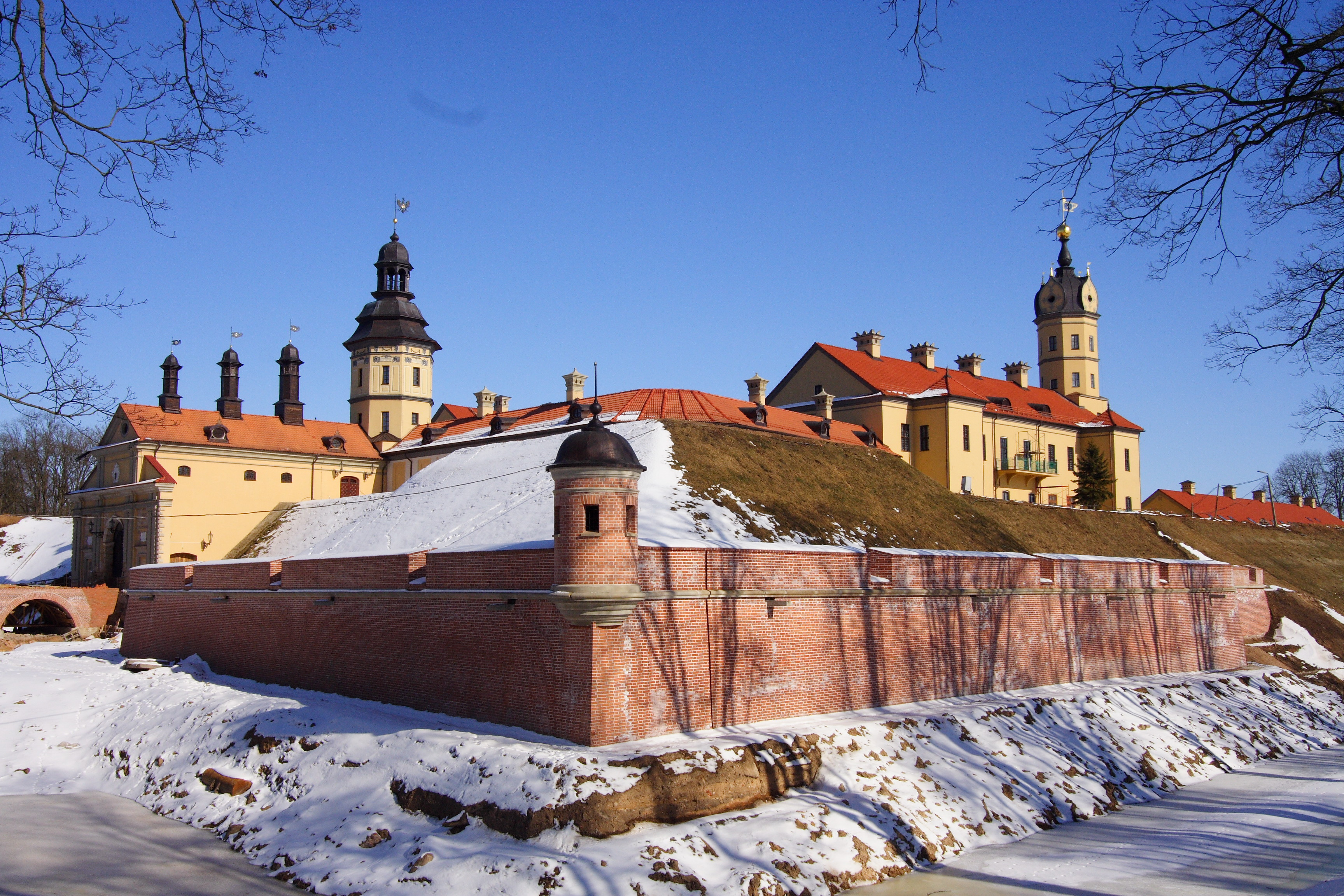 Nesvizh Castle at restoration This is a photo of Belarusian heritage monument. Reference number: 610Г000466 ( WLM)